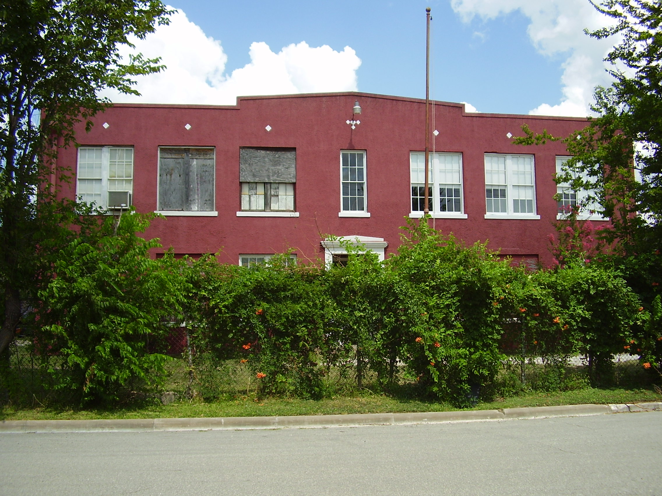 The former Luckie School building